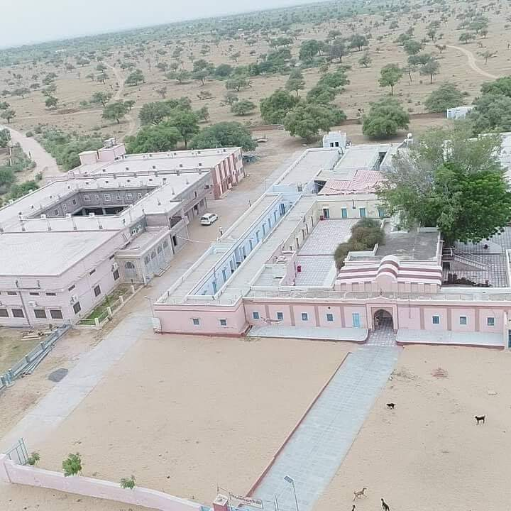 Morkhana